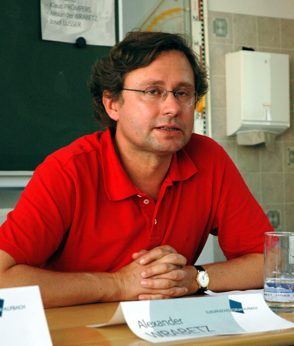 (Designated) head of the Austrian Broadcasting Cooperation ORF, Alexander Wrabetz, attending a discussion at the European Forum Alpbach 2005.